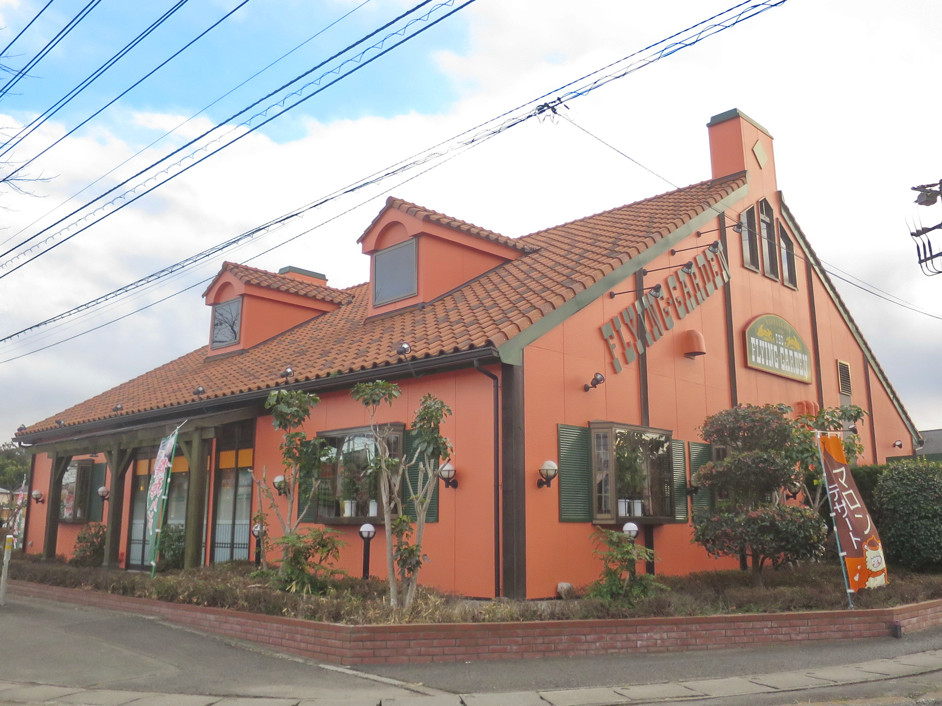 FlyingGarden Tsukubanishihiratsukaten